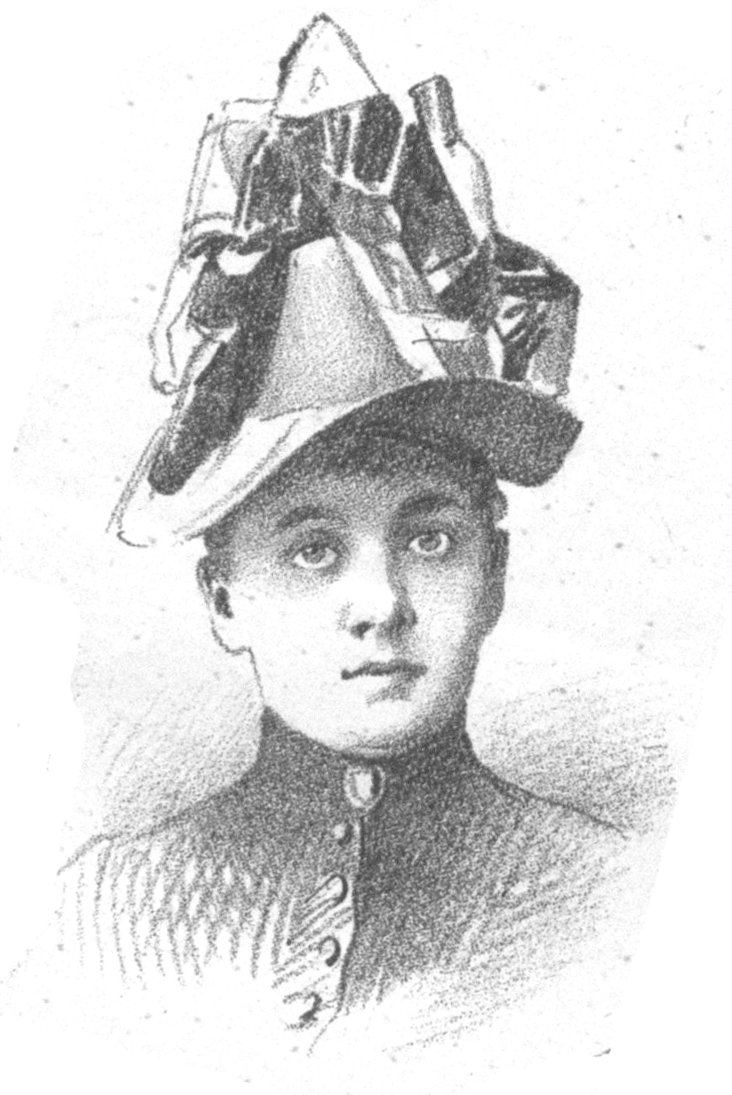 Portrait of Ottilie Collin (1863-??), Austrian actress and vocalist.